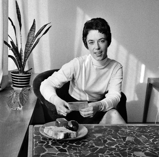 Photograph of the Finnish fencer and musician Barbara Helsingius (1937–2017).